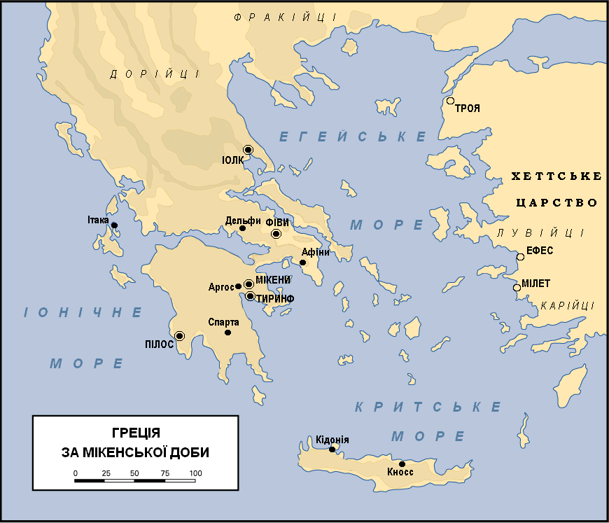 Map of Mycenaean Greece (ukrainian)